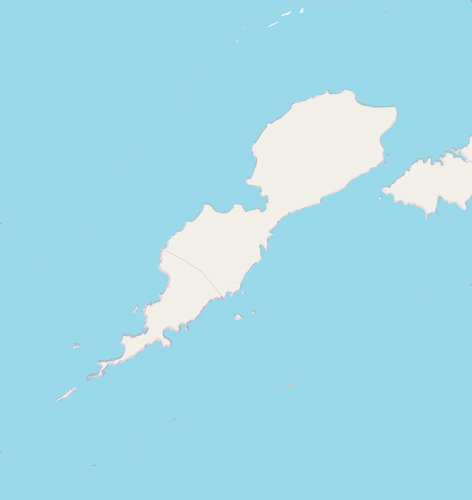 Map of Unmak Island for pin Geographic limits of the map: N: 53.793° S: 52.51° W: -169.486° E: -167.465°